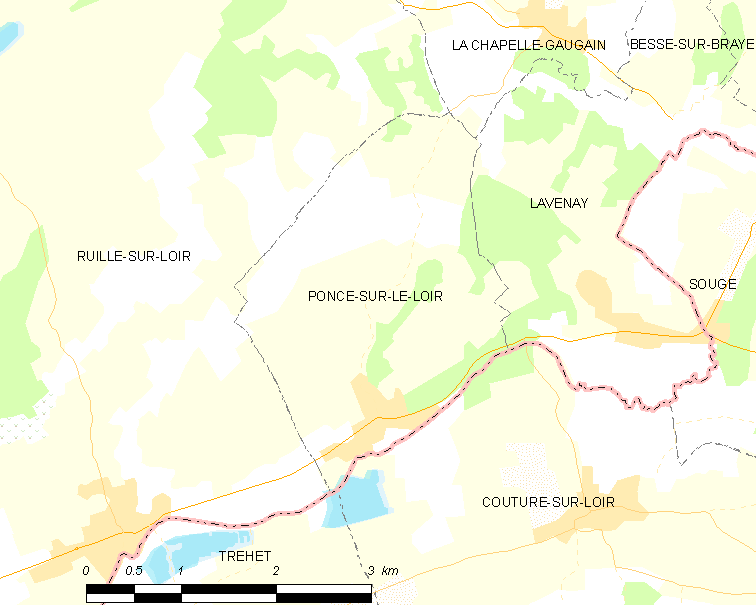 Map of French municipality